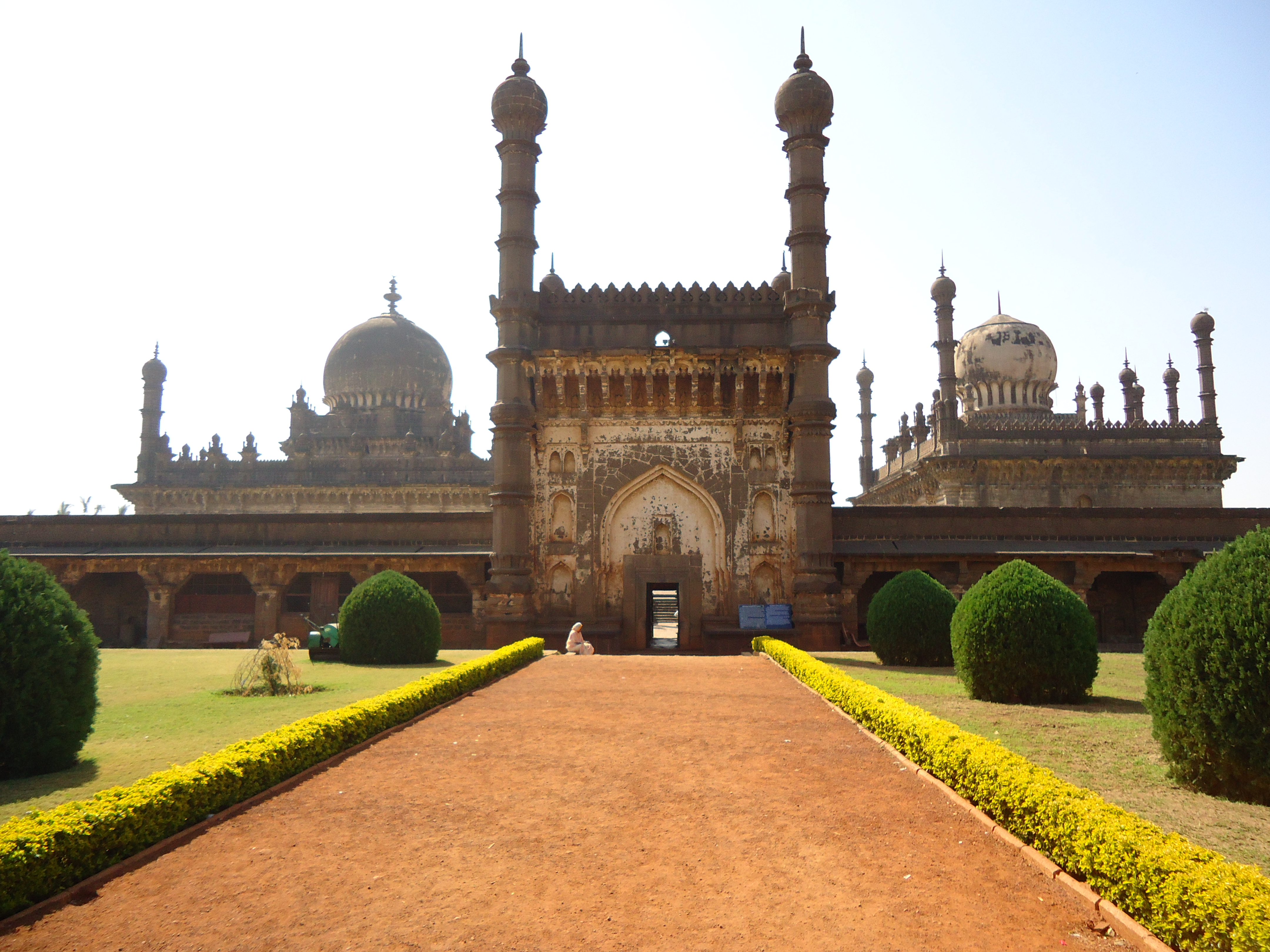 Ibhrahim Roza Bijapur India This is the tomb of Ibrahim Adil Shah II (ruled 1580-1627), the fifth king of the dynasty and, like the Mughal emperor Akbar, known for religious tolerance. Built on a single rock bed, it is noted for the symmetry of its features. It is said that the design for the Ibrahim Rauza served as an inspiration for that of the famous Taj Mahal.